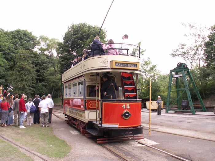 soton 45 at Wakebridge at the National Tramway Museum